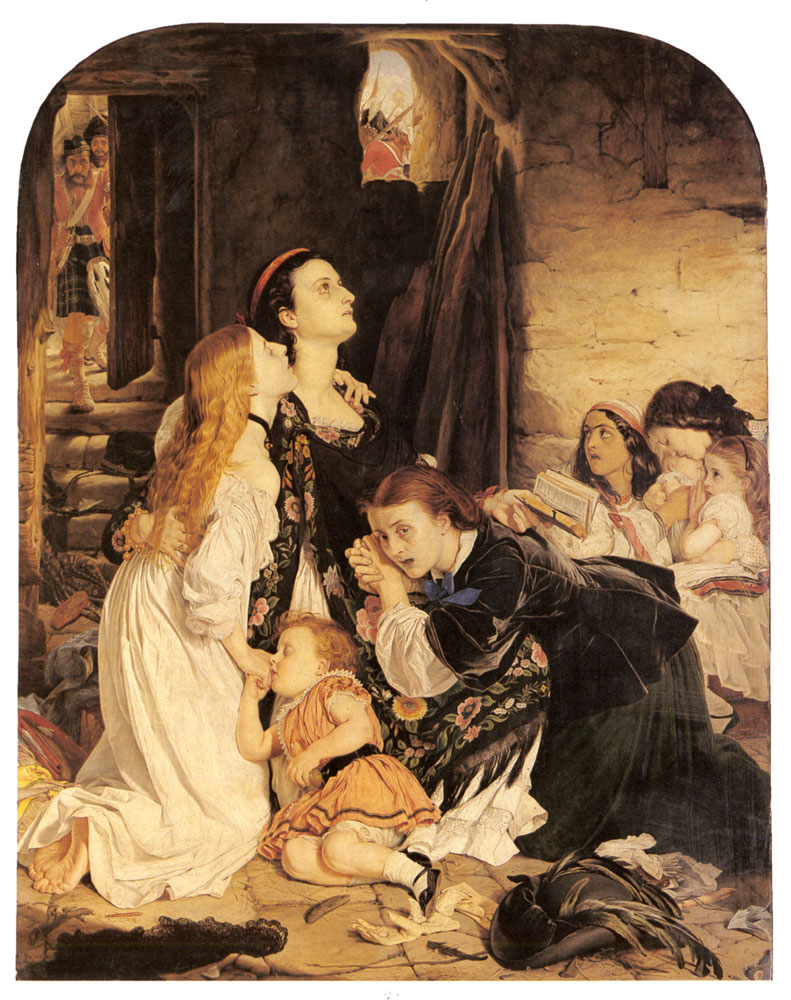 In Memoriam